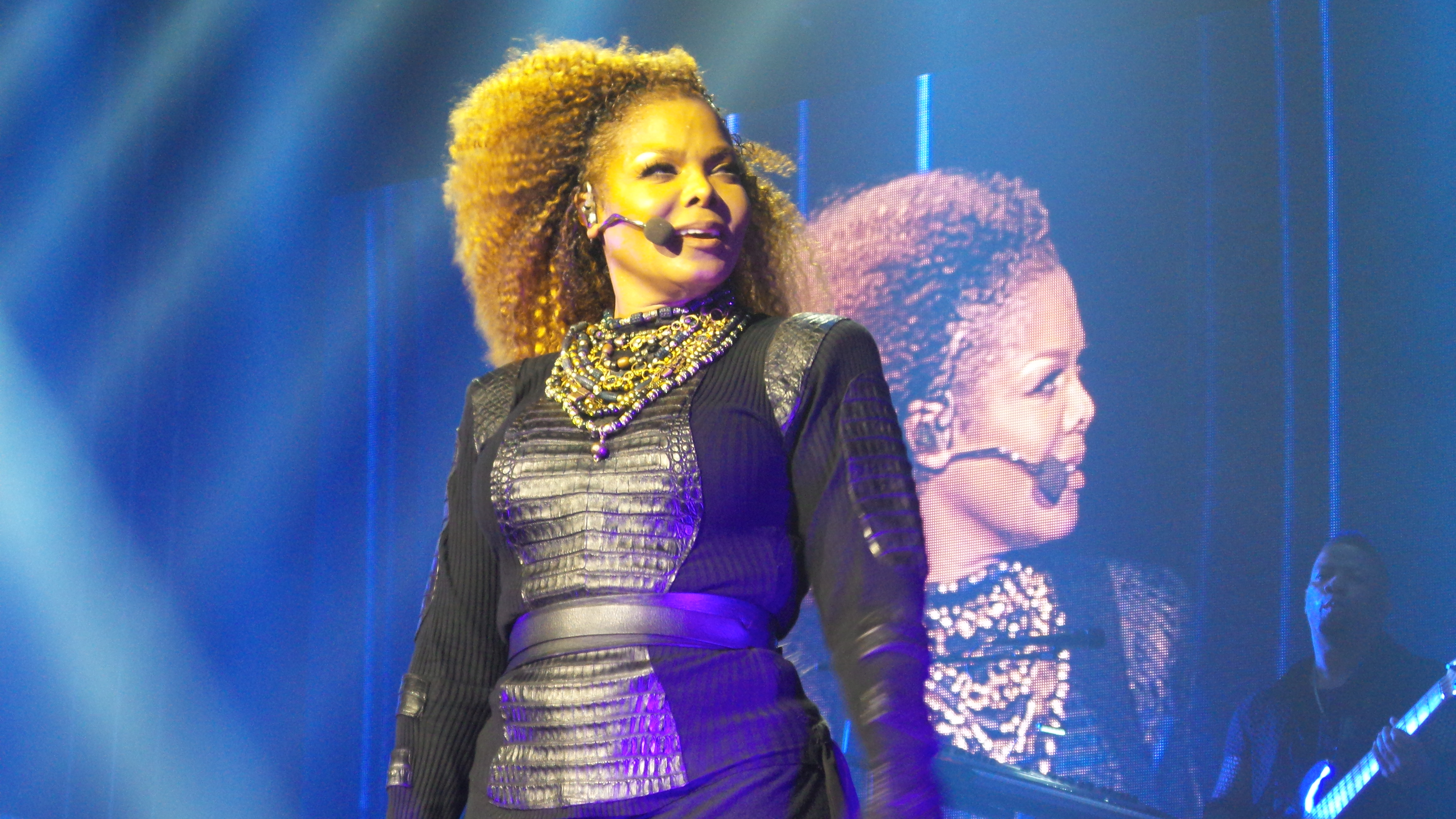 Janet Jackson Unbreakable Tour, Honolulu, Hawaii 2015